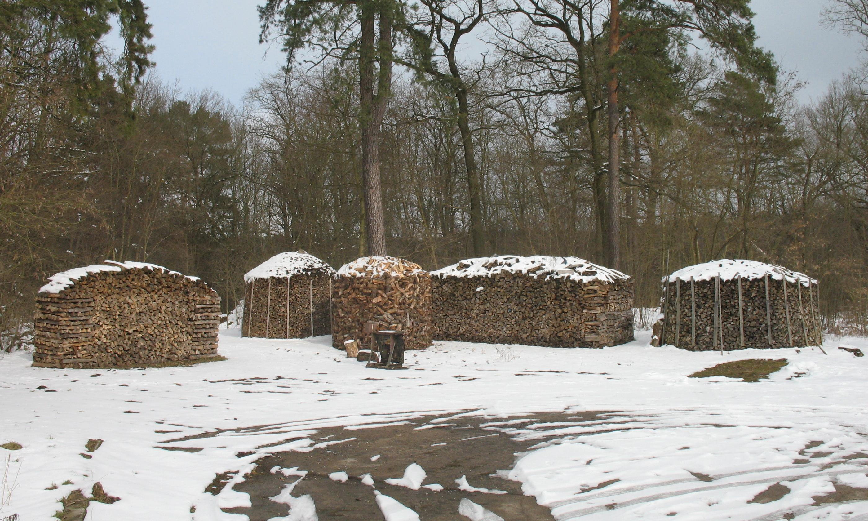 Firewood stacks in Neuruppin-Neumühle in Brandenburg, Germany